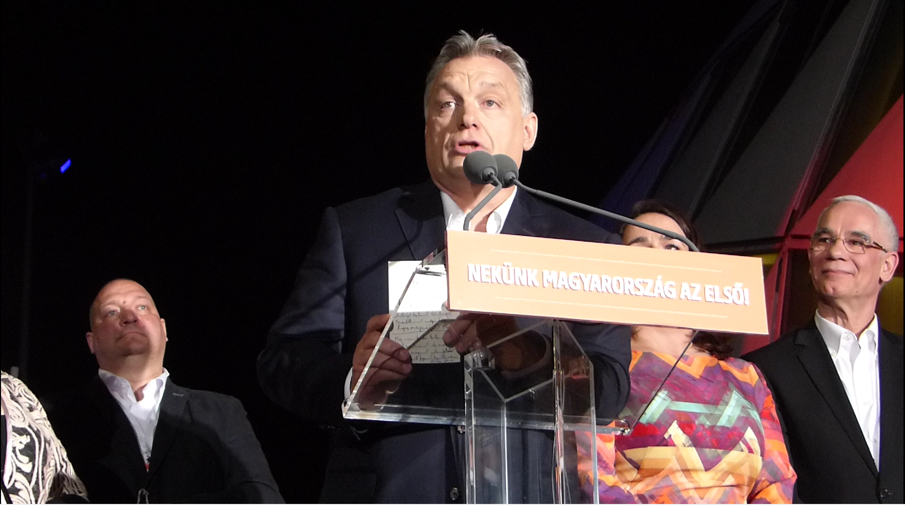 Election 2018 in Hungary. Taken on the 8th of April, 2018, around 23.35. Bálna, Budapest. Orbán Viktor announcing the victory of the FIDESZ party.